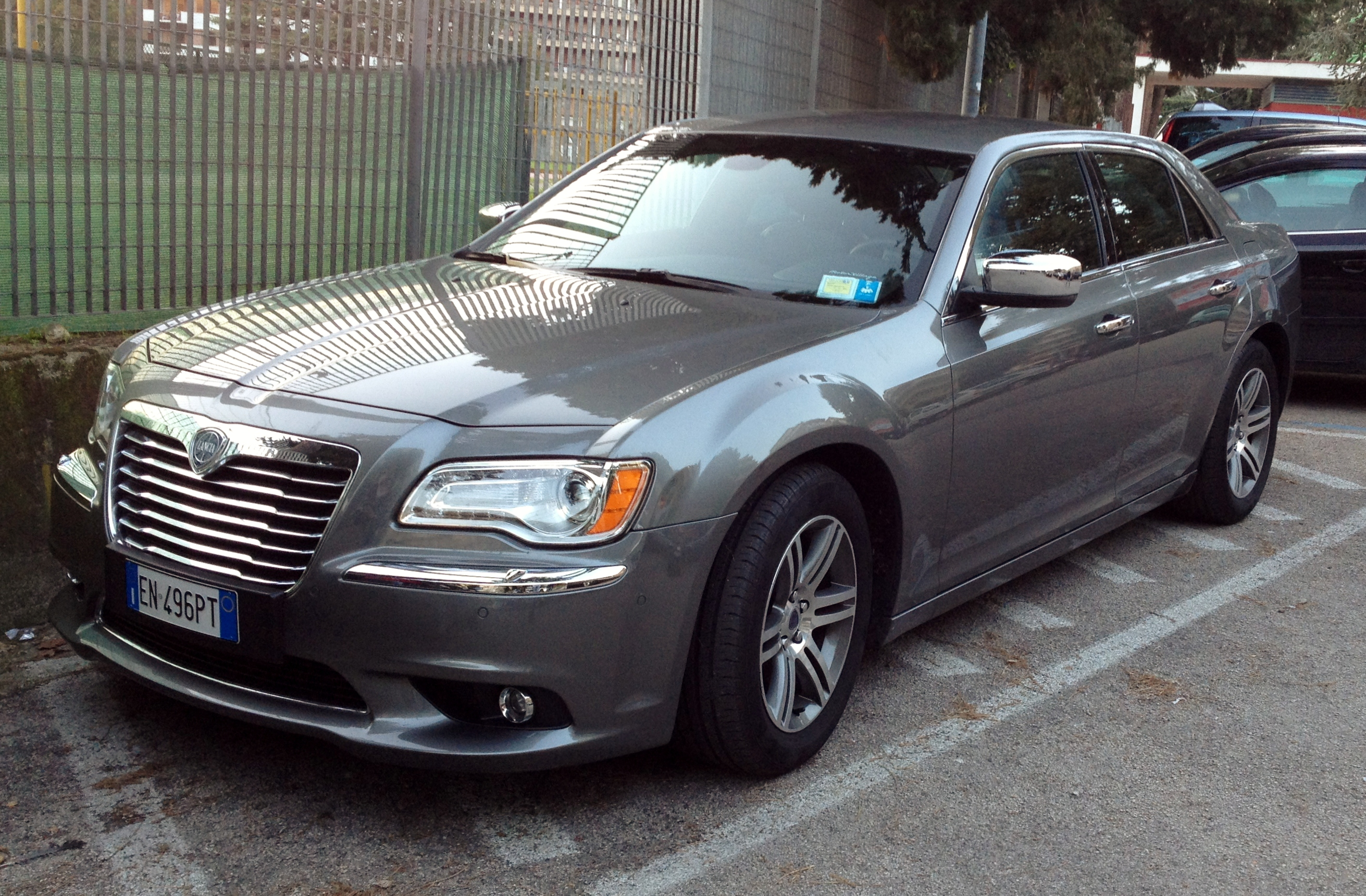 2012 Lancia Thema 3.0 CRD Multijet V6